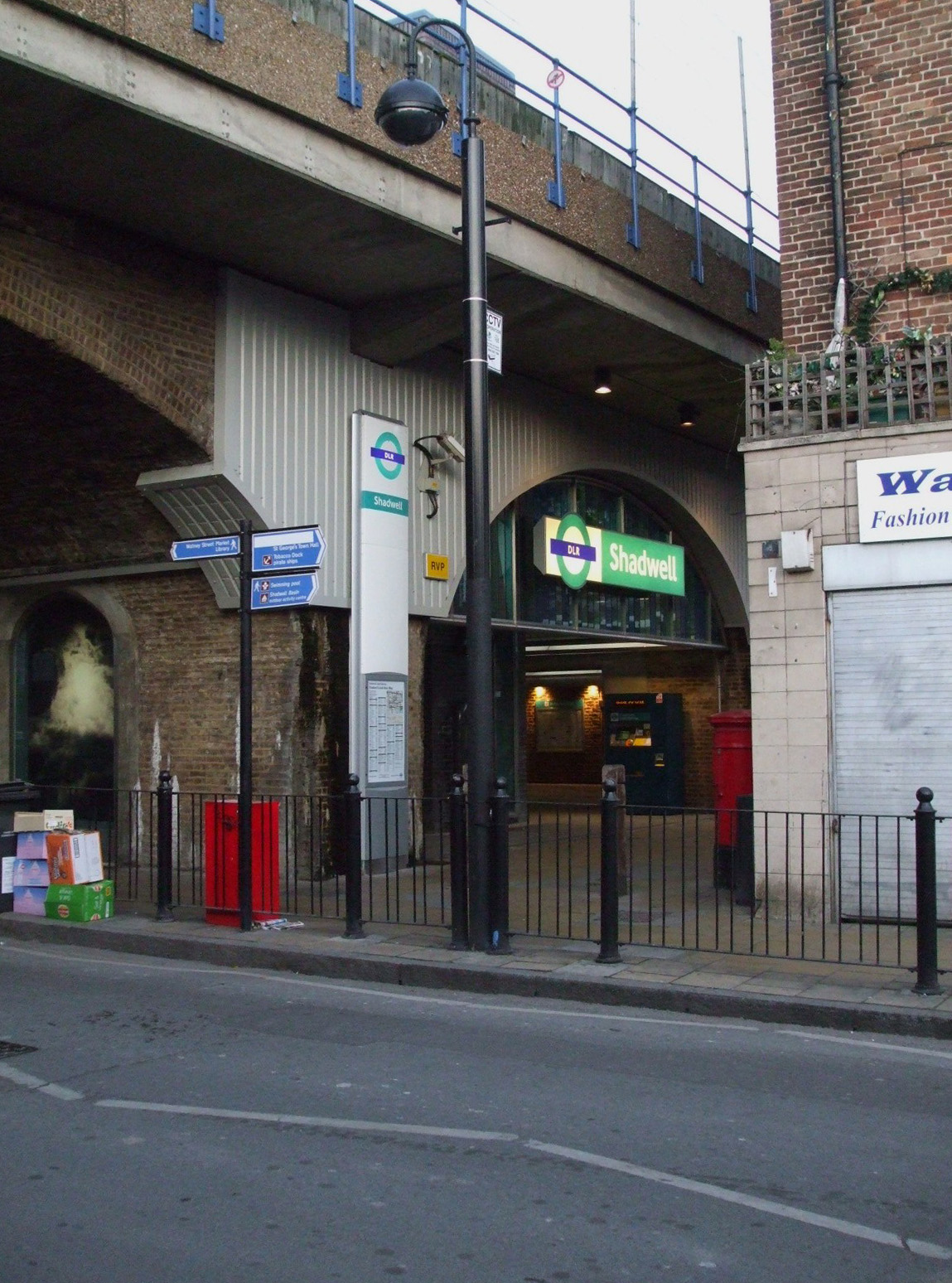 Shadwell DLR station southern entrance